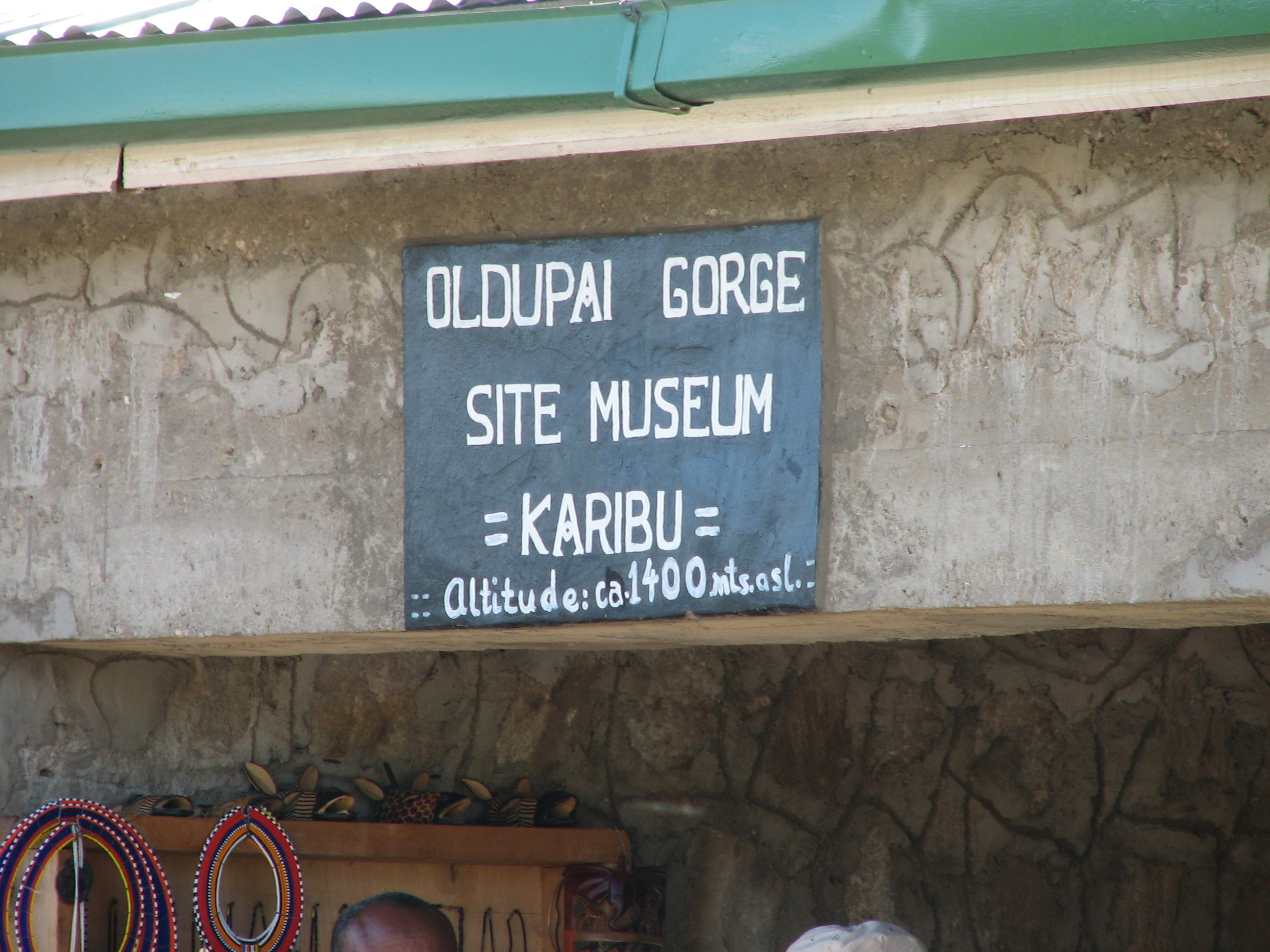 Entrance to Oldupai Gorge site museum displaying the corrected spelling of "Oldupai."